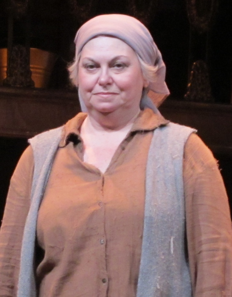 Turkish actress Kadriye Kenter (February 2012)